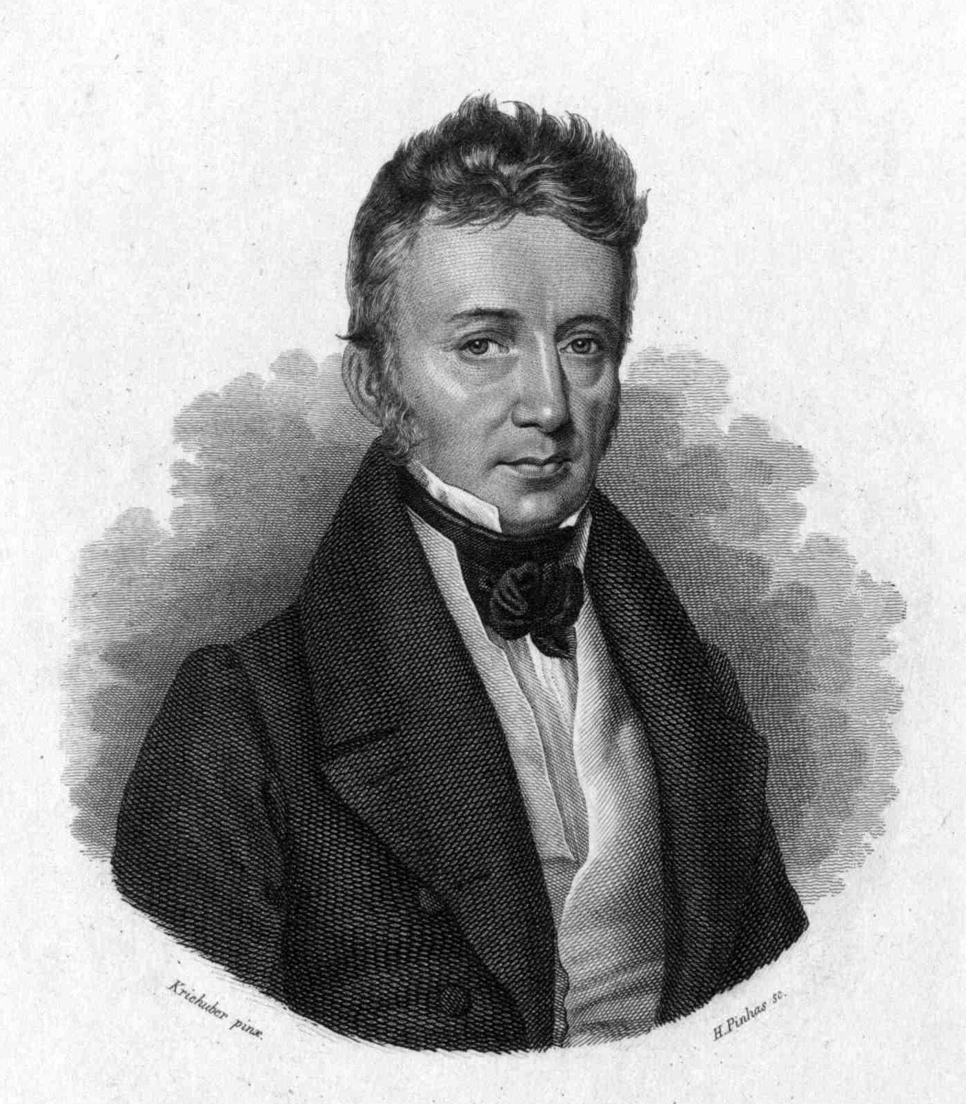 Depicted person: Joseph Johann von Littrow